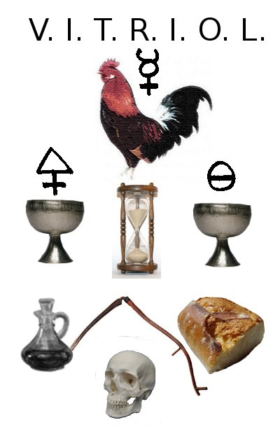 Symbols used in the masonic chamber of reflection.